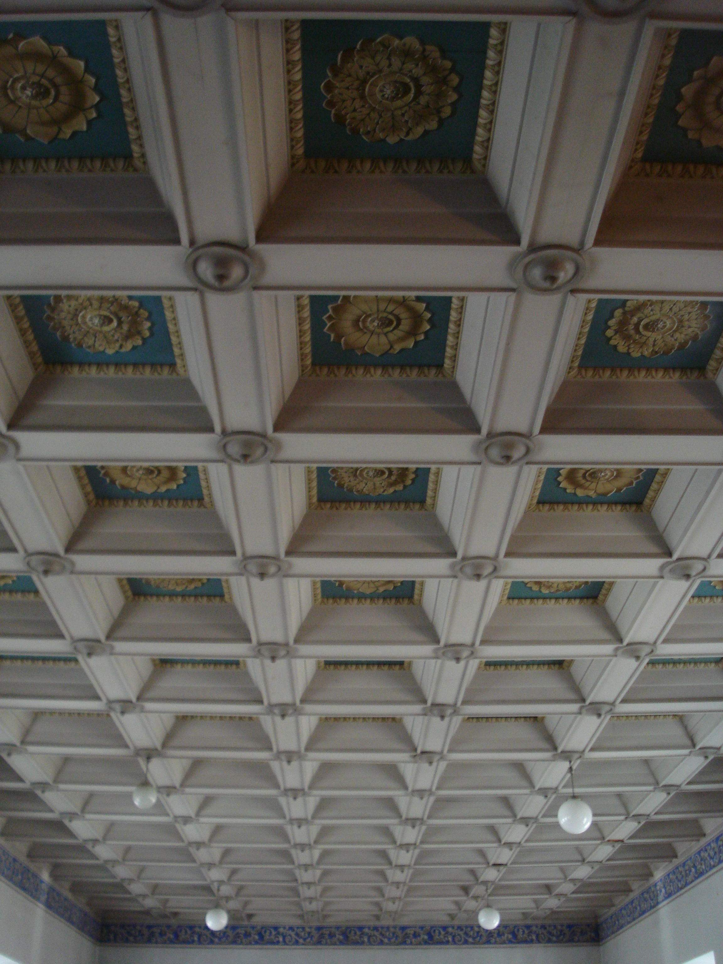 Classical ceiling in the Vilnius University Library' Professors' reading-room. Created by Karol Podczaszyński in 1819-1822